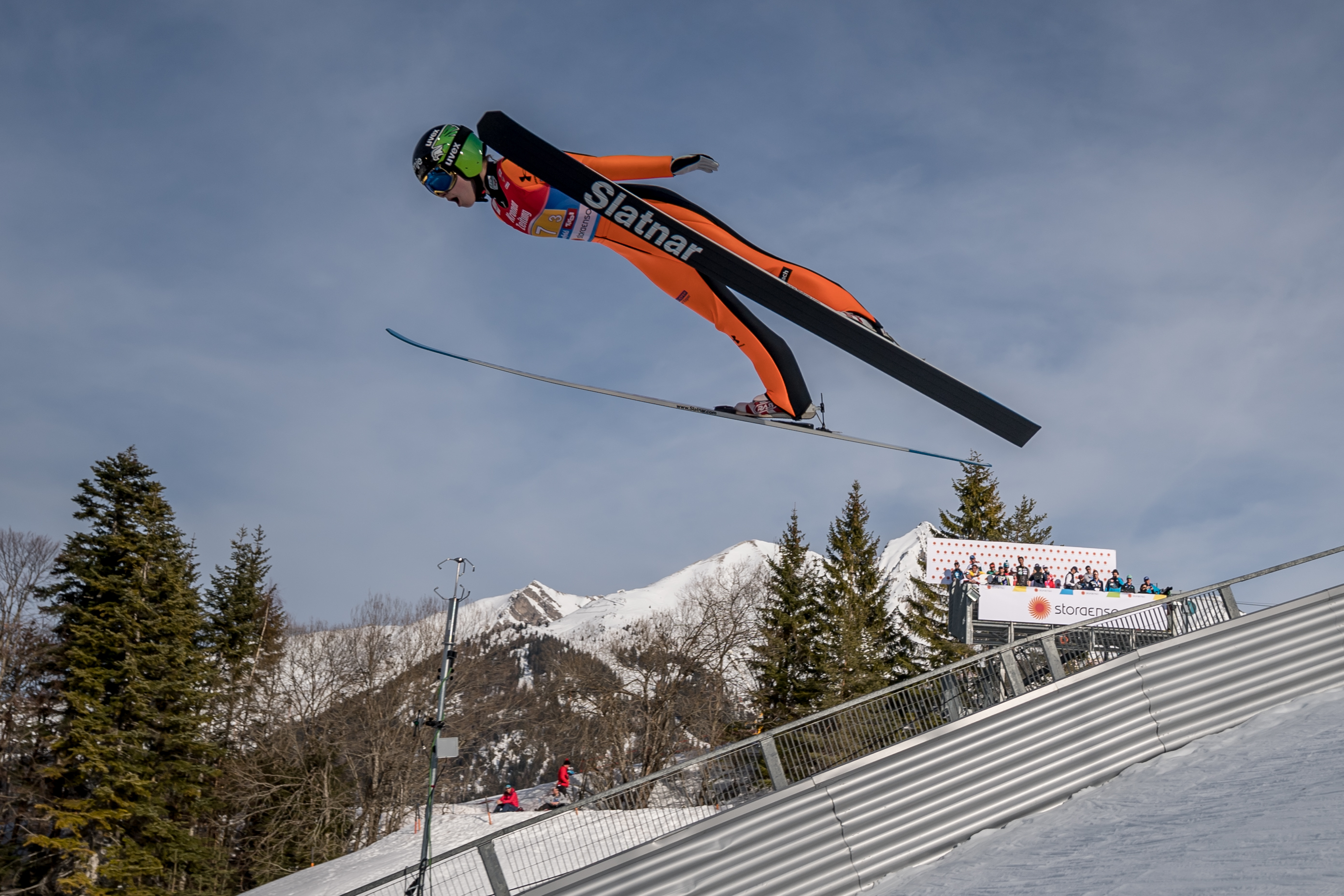 Seefeld, February 26, 2019: FIS Nordic World Ski Championships, Ski Jumping Ladies Normal Hill Team.